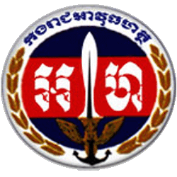 Gendarmerie Insigna